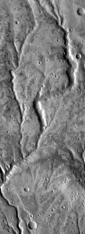 Channels near Warrego in Thaumasia. Loacation is 42.5 degrees south latitude and 91.4 degrees west longitude. This picture was taken by the Mars 2001 Odyssey Thermal Emission Imaging System (THEMIS). The picture credit is NASA/JPL/Arizona State University.